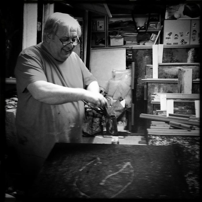 Luxembourgish painter Ott Neuens at work